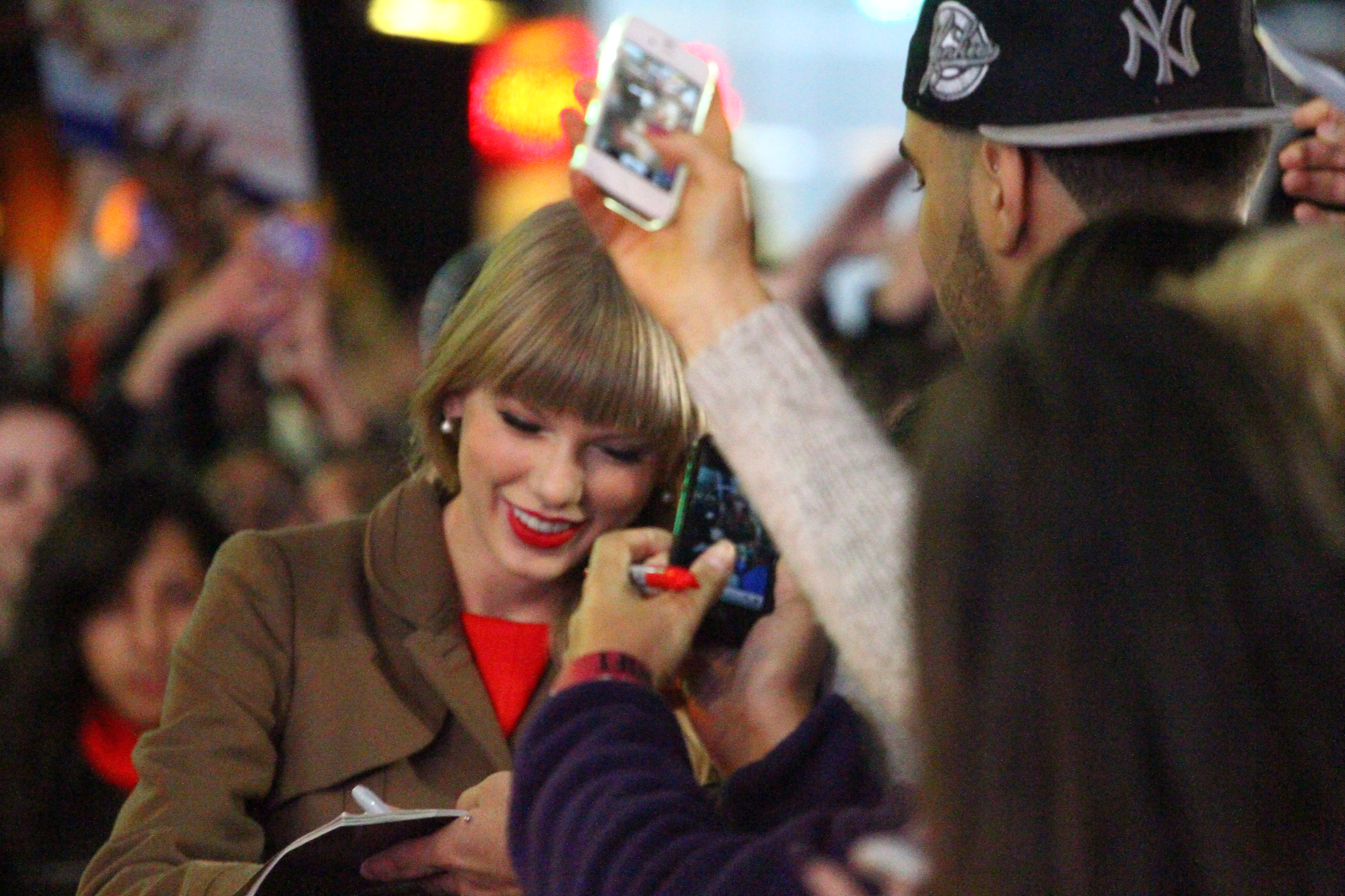 Taylor Swift on Good Morning America for the launching of her Red Album. Feel free to use these photos as long as you credit to either of these sites.